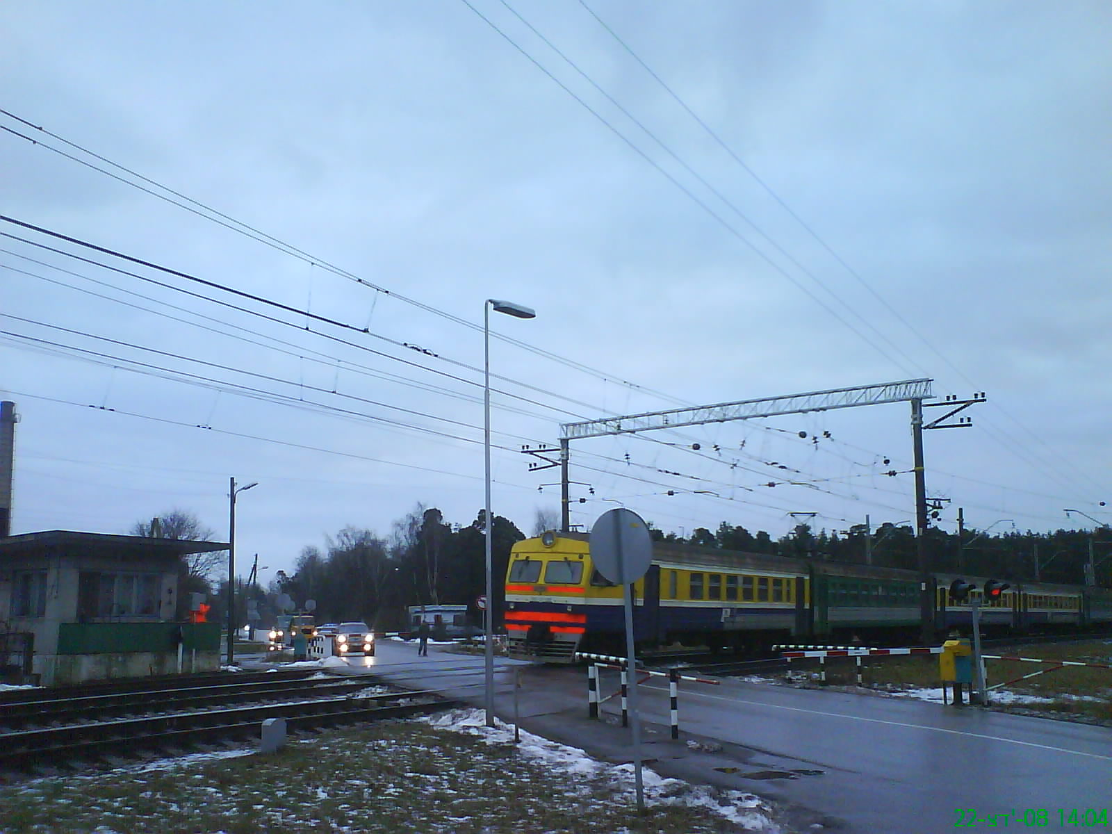 Dubulti level crossing, Jūrmala, Latvia